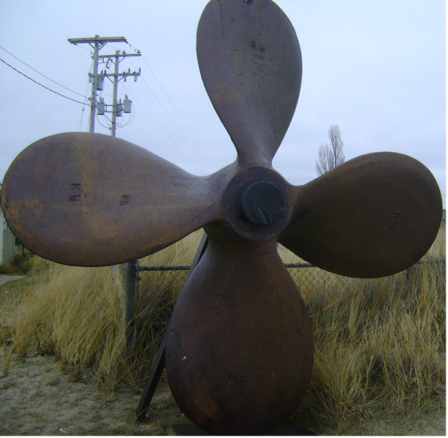 Rusty screw propeller display in Ludington, Michigan